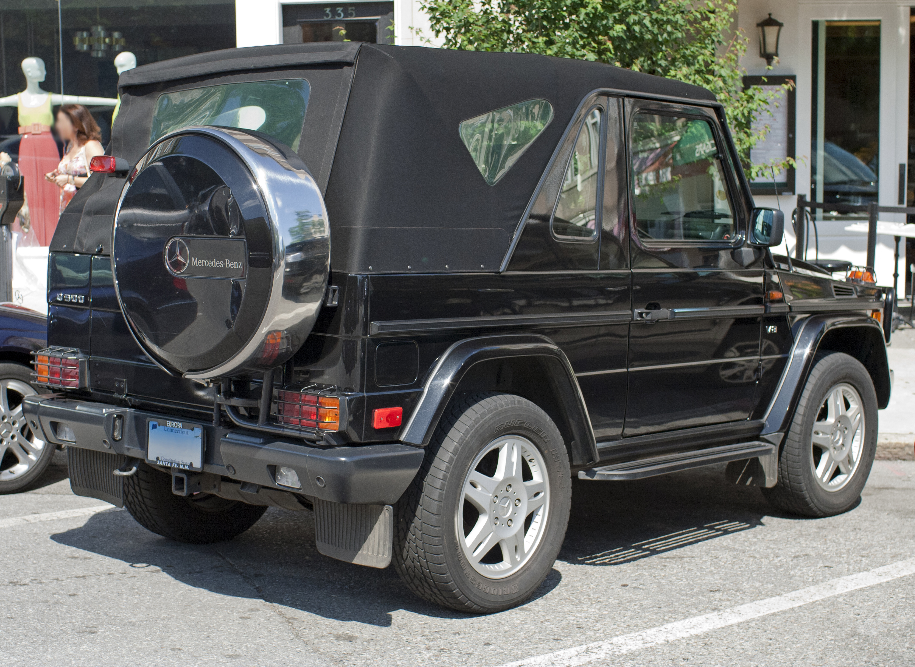 1999 Mercedes-Benz G500 Cabriolet, grey market import by Europa Motors